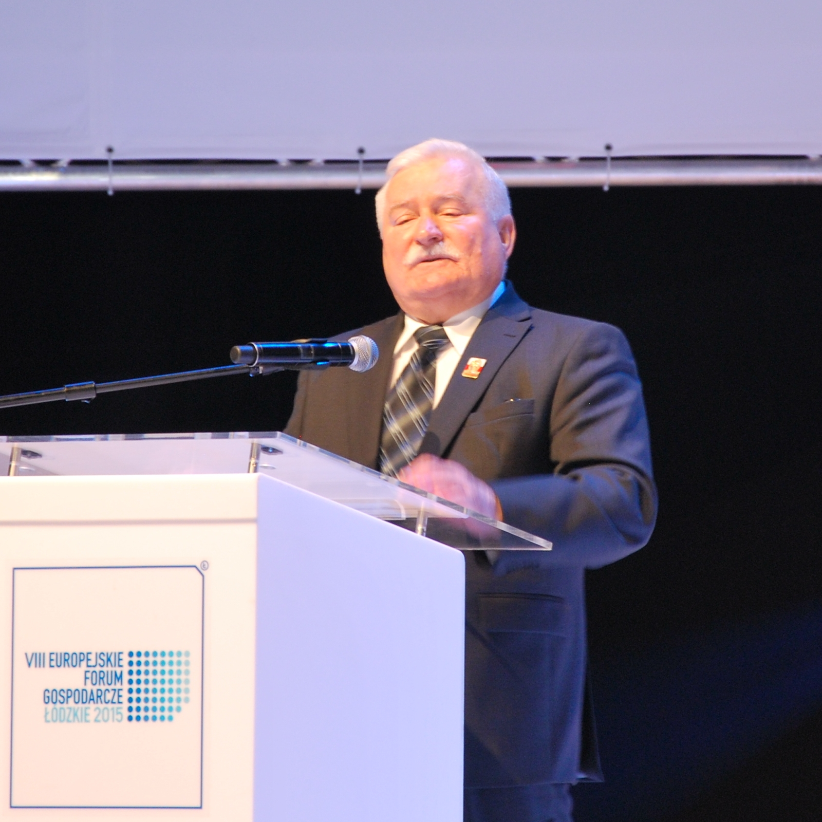 Lech Wałęsa, Łódź VIII European Economic Forum, October 2015